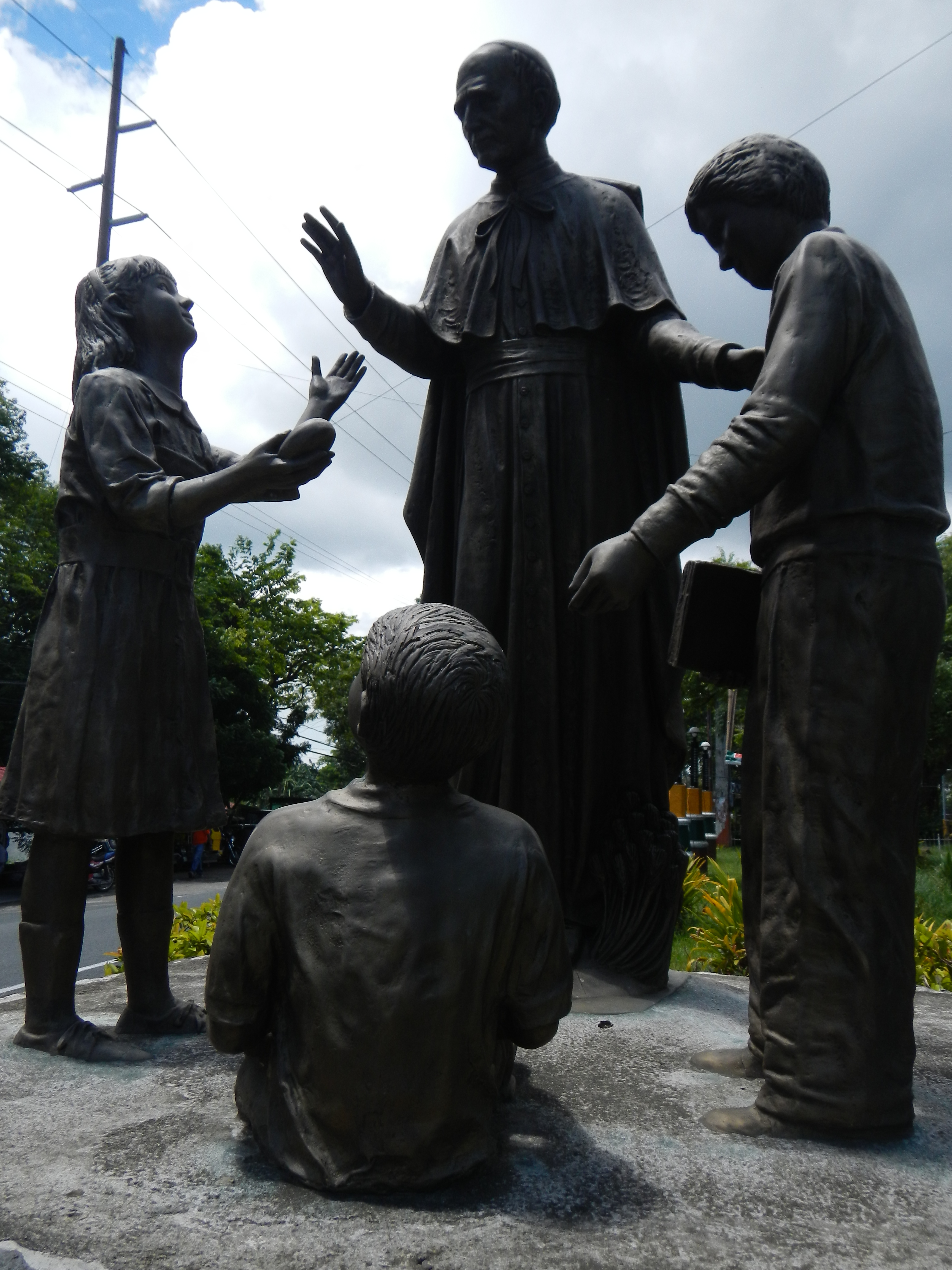 Saint Hannibal Monument[1] - Bay, Laguna[2] - St. Hannibal Mary Di Francia[3] (Annibale Maria di Francia, or Hannibal, (born July 5, 1851 in Messina, Italy, died June 1, 1927) His father Francis was a Knight of the Marquises of St. Catherine of Jonio, Papal Vice-Consul and Honorary Captain of the Navy. His mother, Anna Toscano, belonged to the noble family of the Marquises of Montanaro.) known as the Father of the orphans and of the poor. He discovered the divine command of Jesus: “rogate ergo…”(Mt. 9:37-38). July 19,2009- Rev. Fr. Dante F. Quidayan, RCJ, the first Rogationist priest from Laguna, blessed a monument of the Father Founder, Saint Hannibal Mary Di Francia, which was installed at the Bay junction. [4] --- Bay, Laguna[5] (is a second class[6] municipality politically subdivided into 15 barangays, one of the oldest towns in the province of Laguna[7], Philippines, covering even Los Baños [8] and Calauan[9]. In 1581, Bay became the capital of the Province of Laguna de Bay and remained so until 1688 when the capital was moved to Pagsanjan. The Patron of Bay is Saint Augustine of Hippo [10] celebrating his Feast Day during August 28. [11] Coordinates: 14°8'1"N 121°15'9"E [12] Laguna, Region 4, Philippines, Asia Geographical coordinates: 14° 10' 58" North, 121° 17' 5" East This place is situated in Laguna, Region 4, Philippines, its geographical coordinates are 14° 10' 58" North, 121° 17' 5" East and its original name (with diacritics) is Bay. LLDA [13])